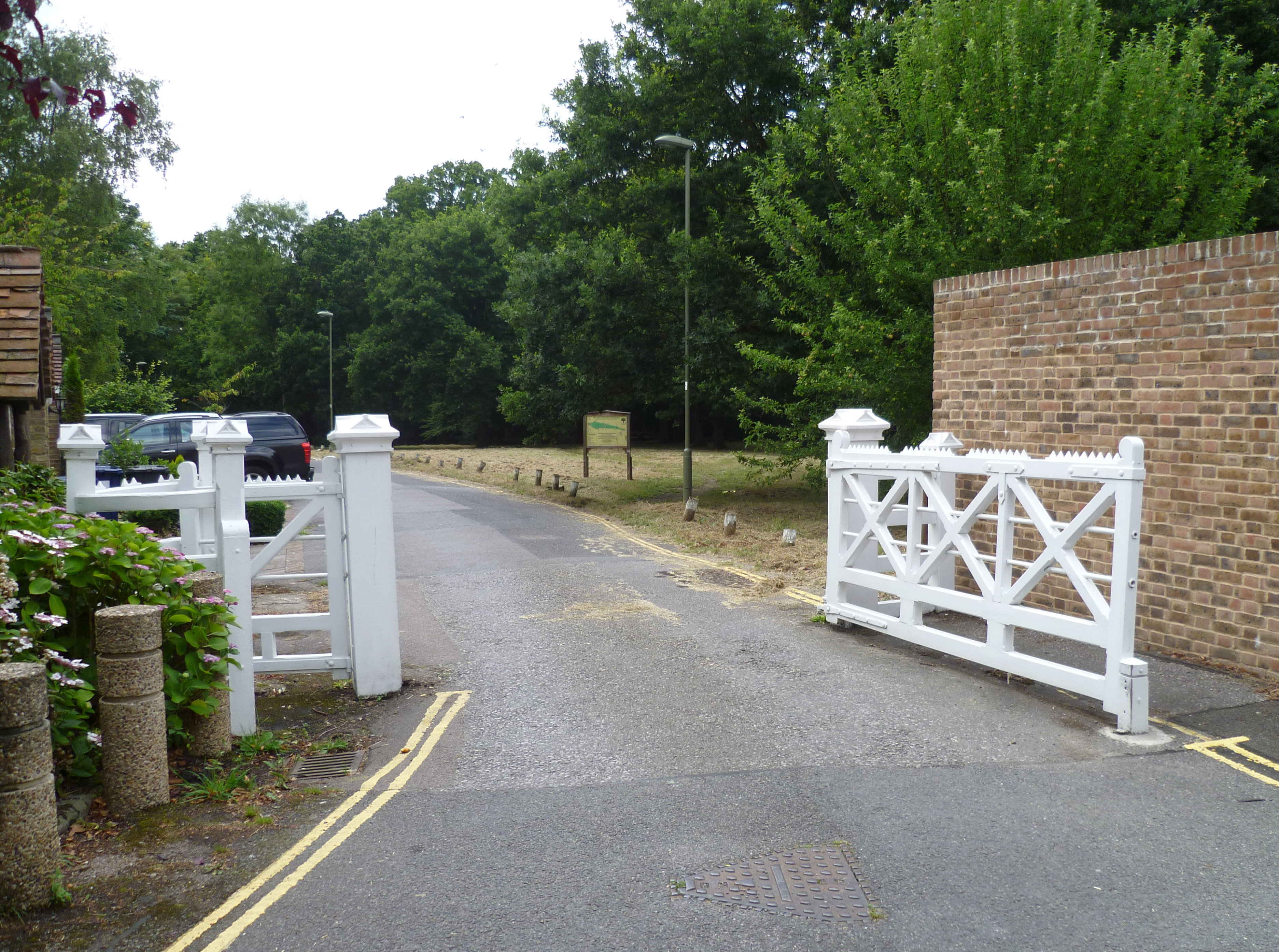 Monken Hadley Common gates at Games Road, Cockfosters 25 July 2015